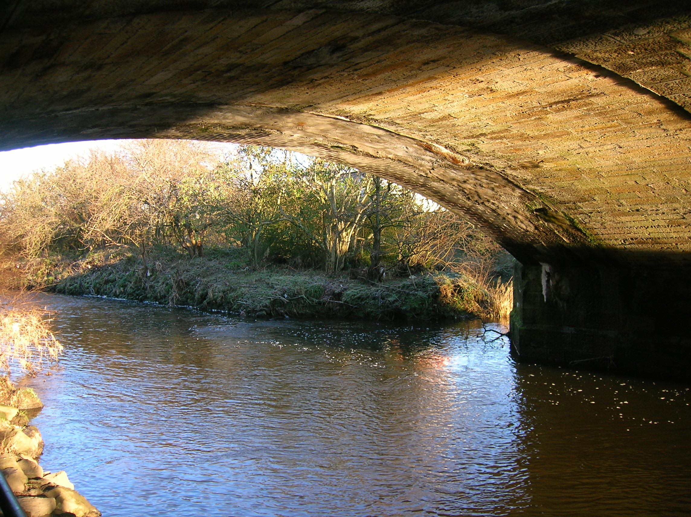 Kilwinning Bridge showing widening work and the Islet in the River Garnock, North Ayrshire, Scotland